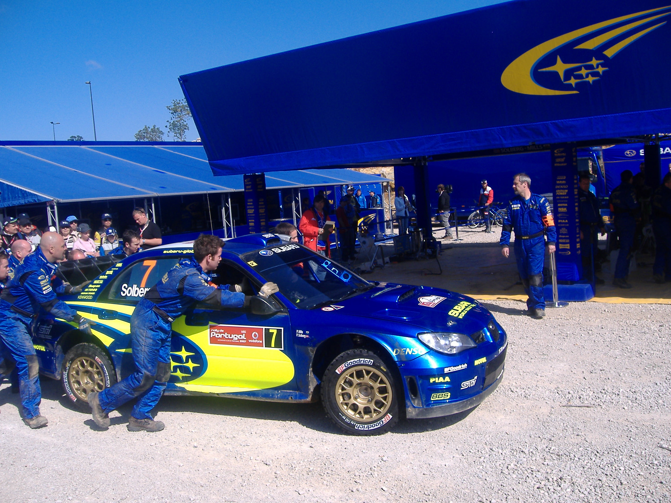 The mechanics of moving the Subaru Impreza WRC Subaru team for the box.